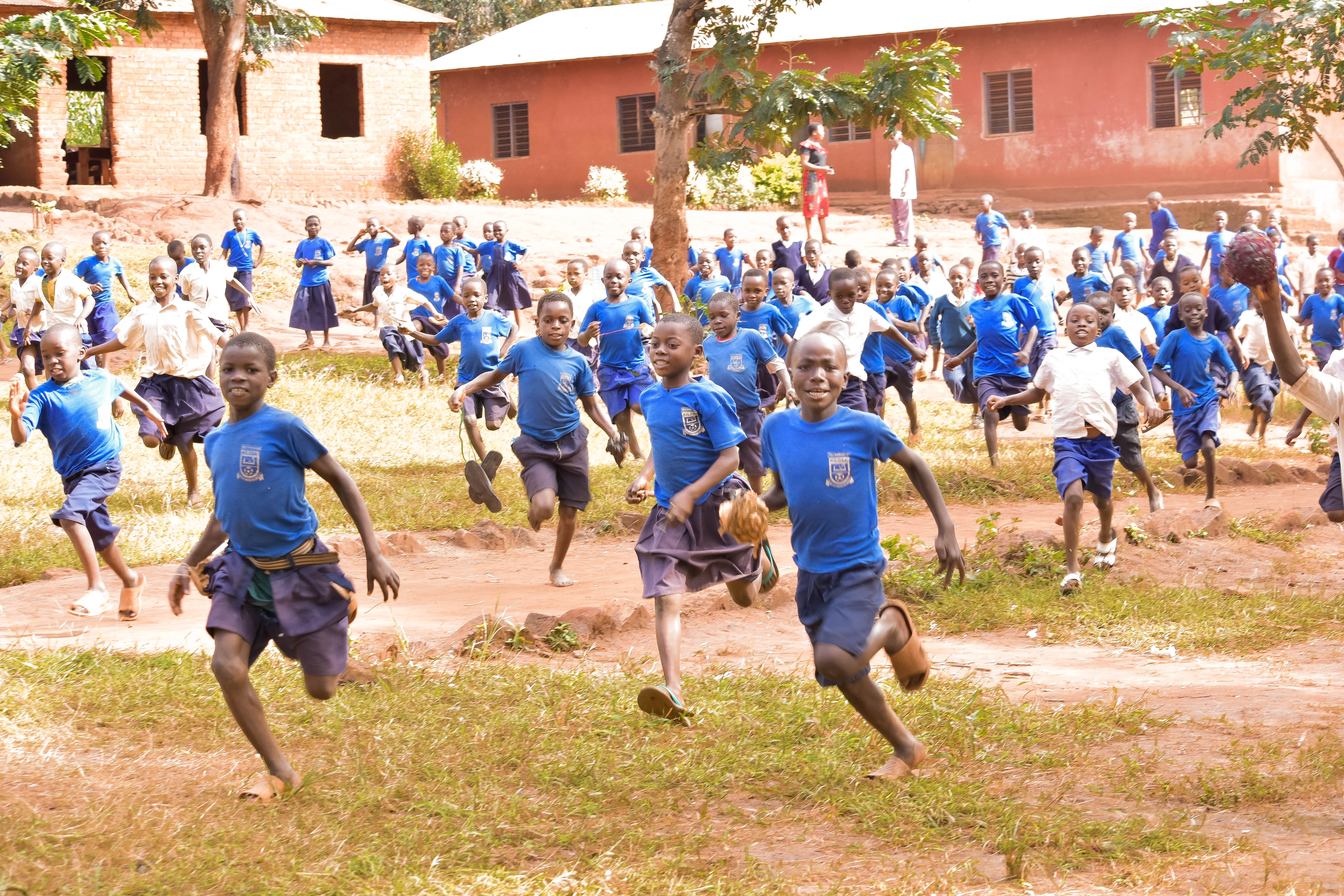 This is an image with the theme "Play" from: Tanzania